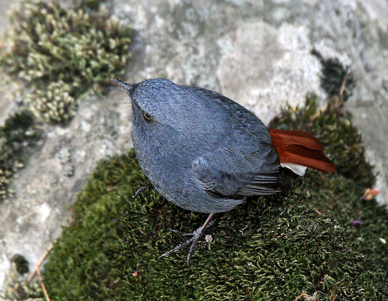 Plumbeous Water Redstart (Rhyacornis fuliginosus) in Kullu District of Himachal Pradesh, India.